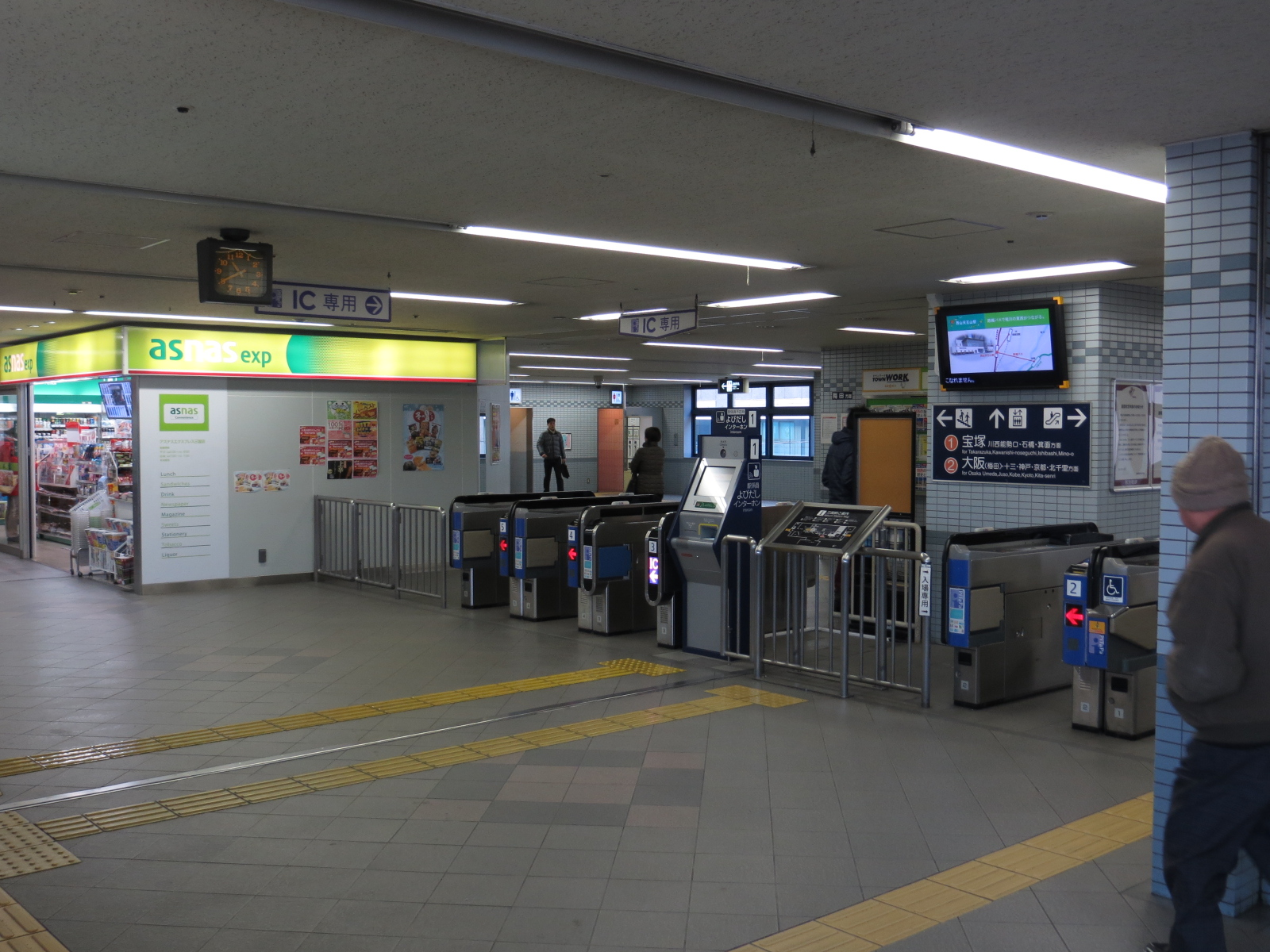 Ticket barrier from Mikuni Station (Osaka) (HK41).